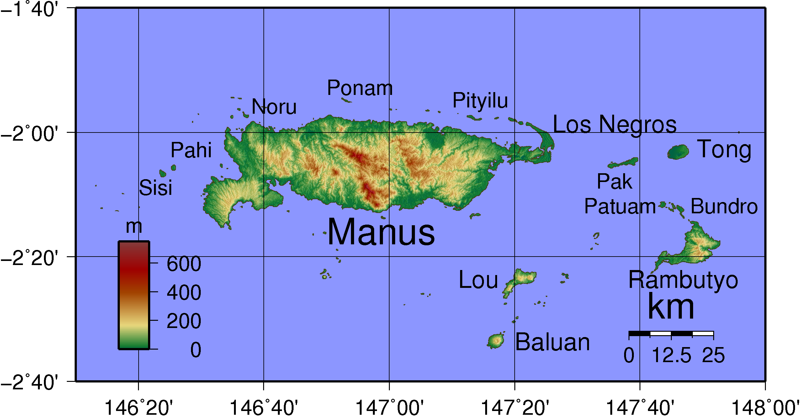 Topographical map of Admiralty Island in Papua New Guinea. Largest islands have been named. Created with GMT from publicly released SRTM data.